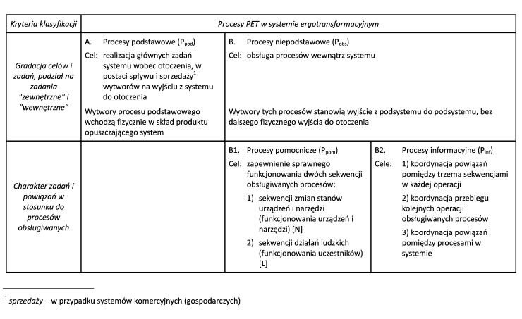 Table 2. The classification of ETP-processes in the Ergo-Transformation System, depending on gradation of goals and tasks, and on relationships resulting from servicing.